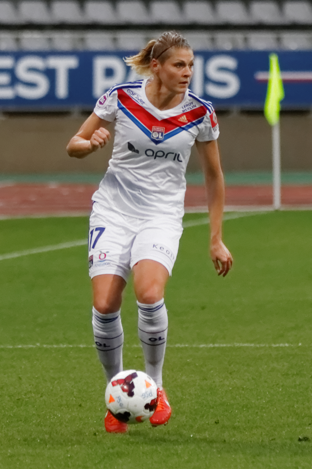 PSG-Lyon, September 29th, 2013.